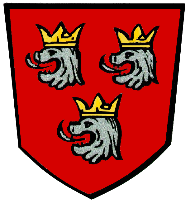 Coat of Arms of Estenfeld